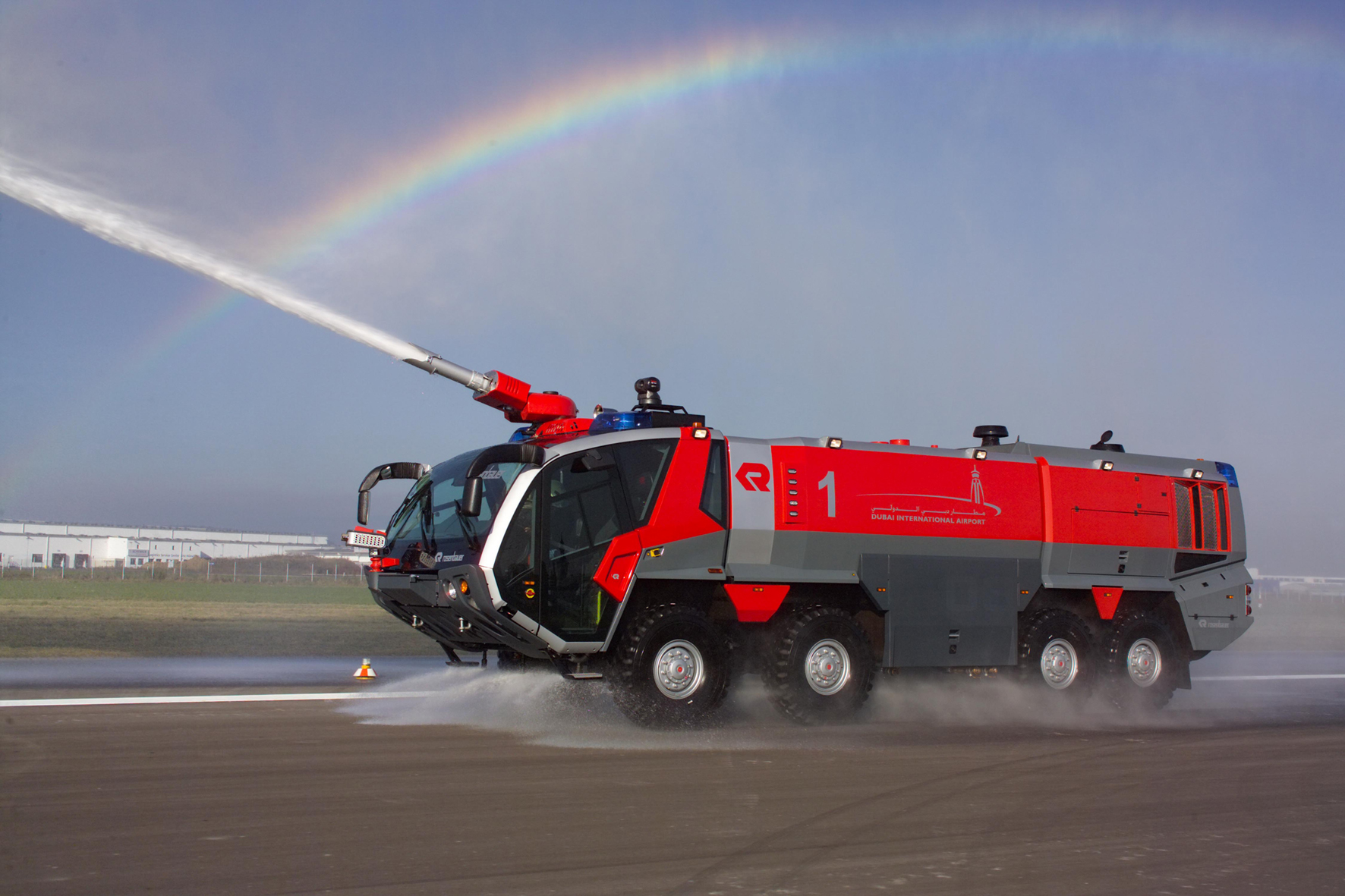 Fire truck at Dubai International Airport in 2005 (see the writing on the truck)